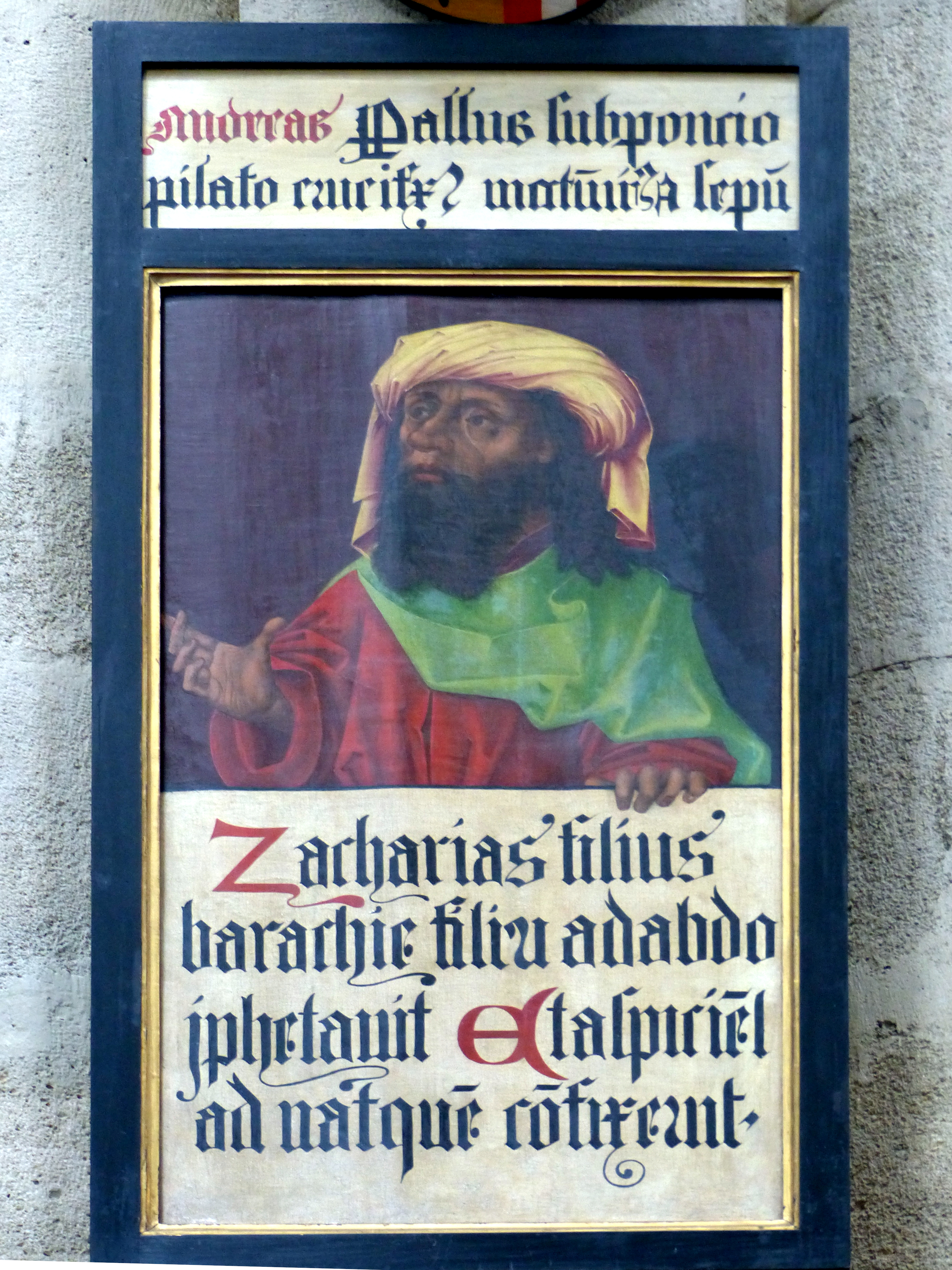 Wiener Neustadt ( Lower Austria ). Cathedral: Prophet Zacharias ( 15th century )